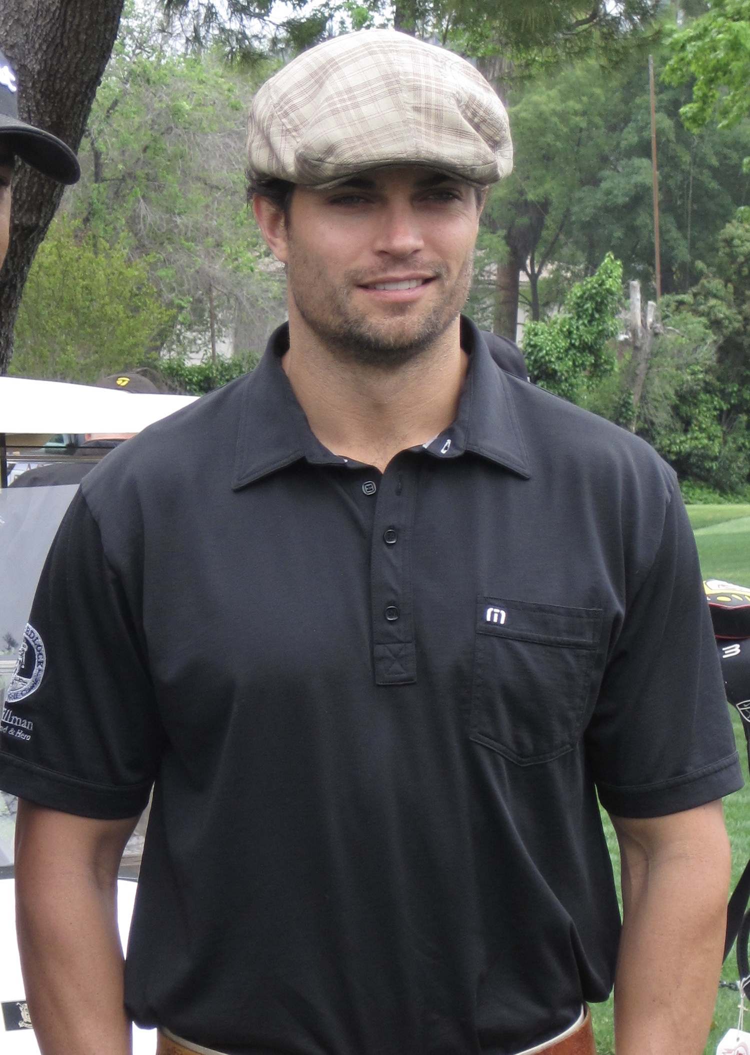 Scott Elrod at the 8th Annual Hack n' Smack Celebrity Golf Tournament in 2011